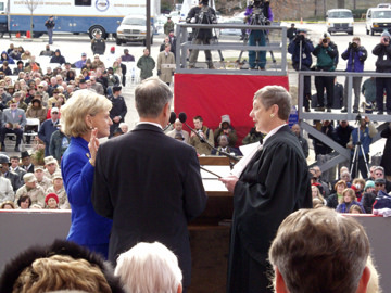 January 15, 2005 Governor Mike Easley's second Inauguration. From the NC Department of Natural and Cultural Resources, State Archives of NC.